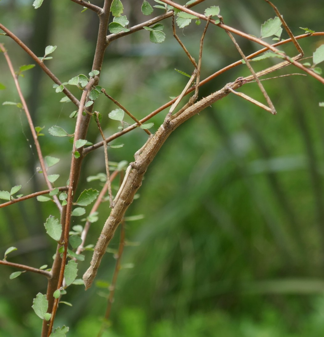 Argosarchus horridus -Giant stick insect. On a juvenile Hoheria angustfolia plant. Port Hills, Lyttleton, New Zealand